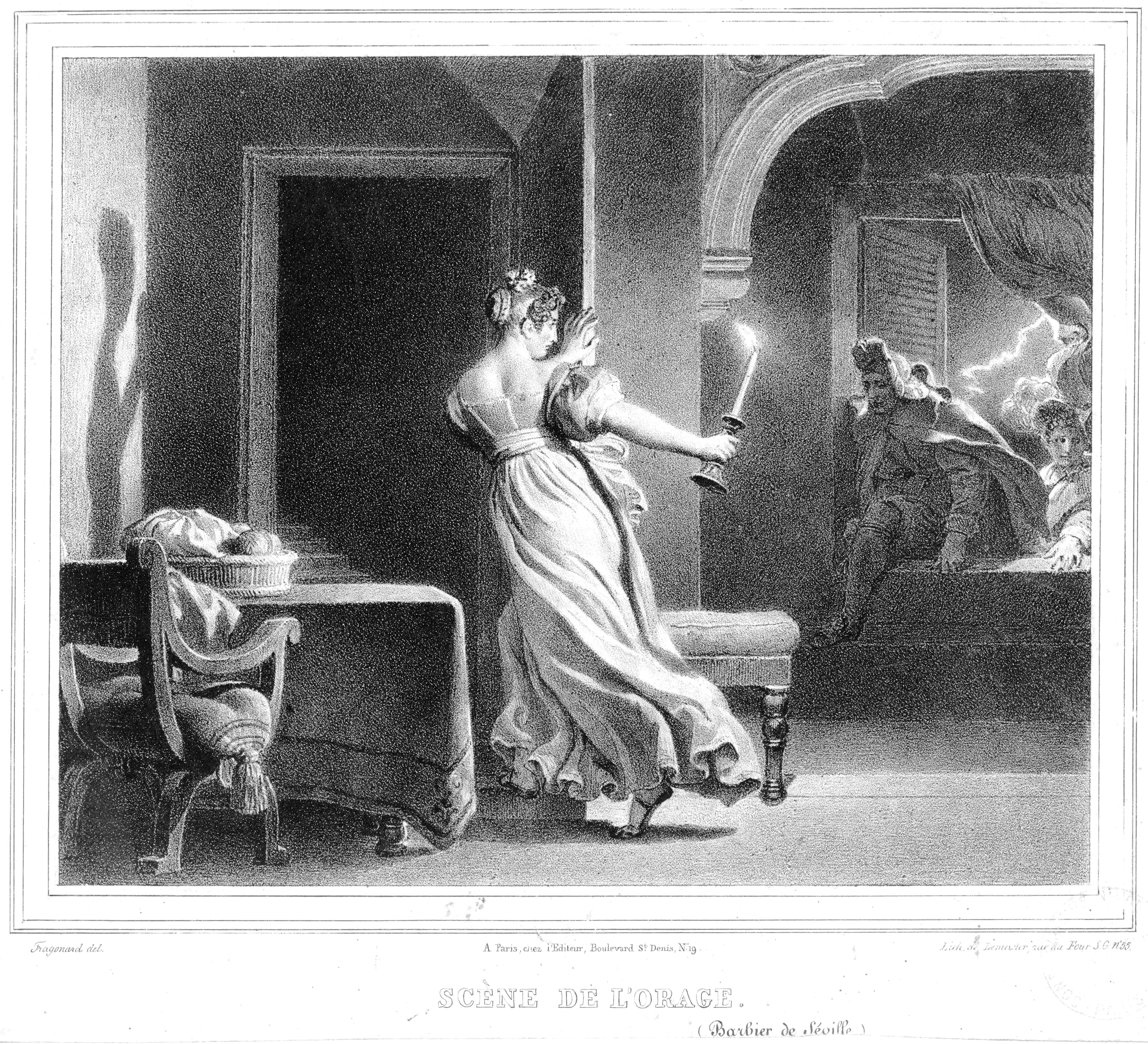 Rossini - Il barbiere di Siviglia - Tempest scene - 1830